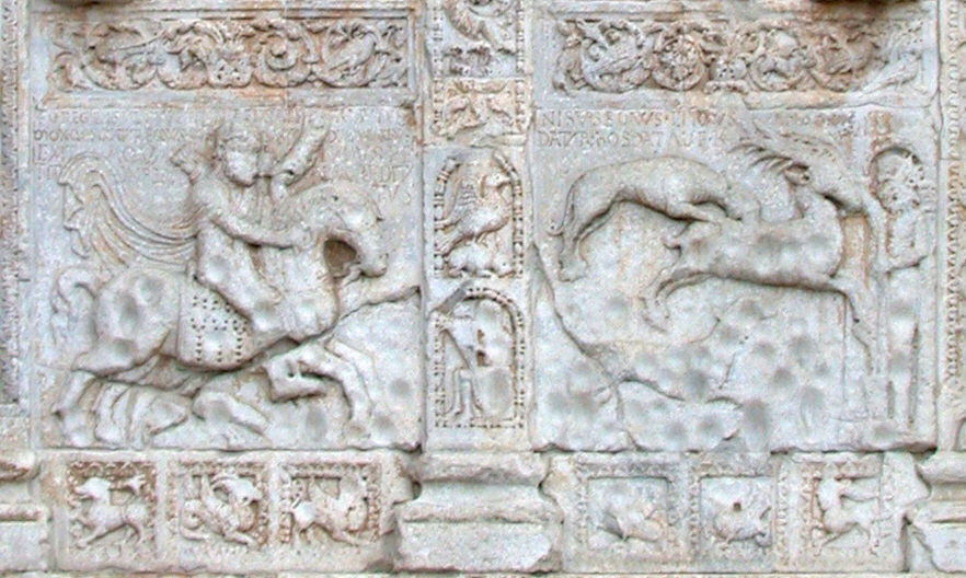 Two zoomed panels on bottom of the original image: Zeno Maggiore, panel with sculpture on the right side of the main door.